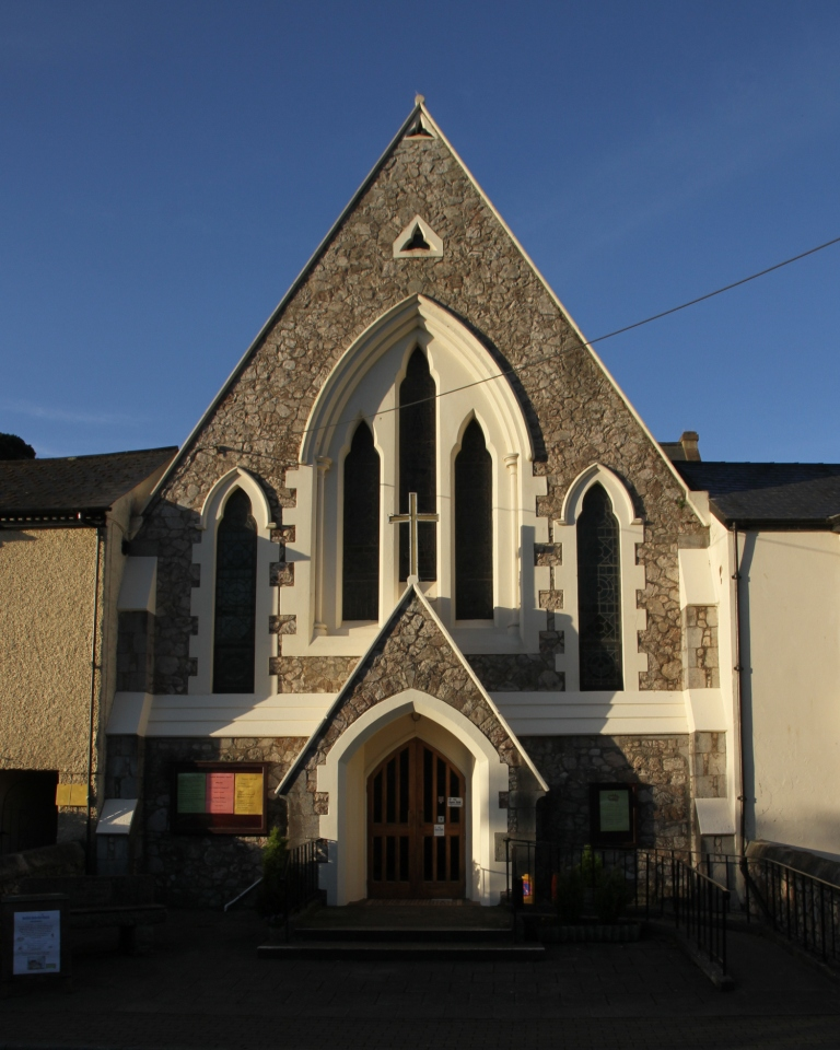 Methodist Church, Brunswick Place, Dawlish, Devon, seen from the north